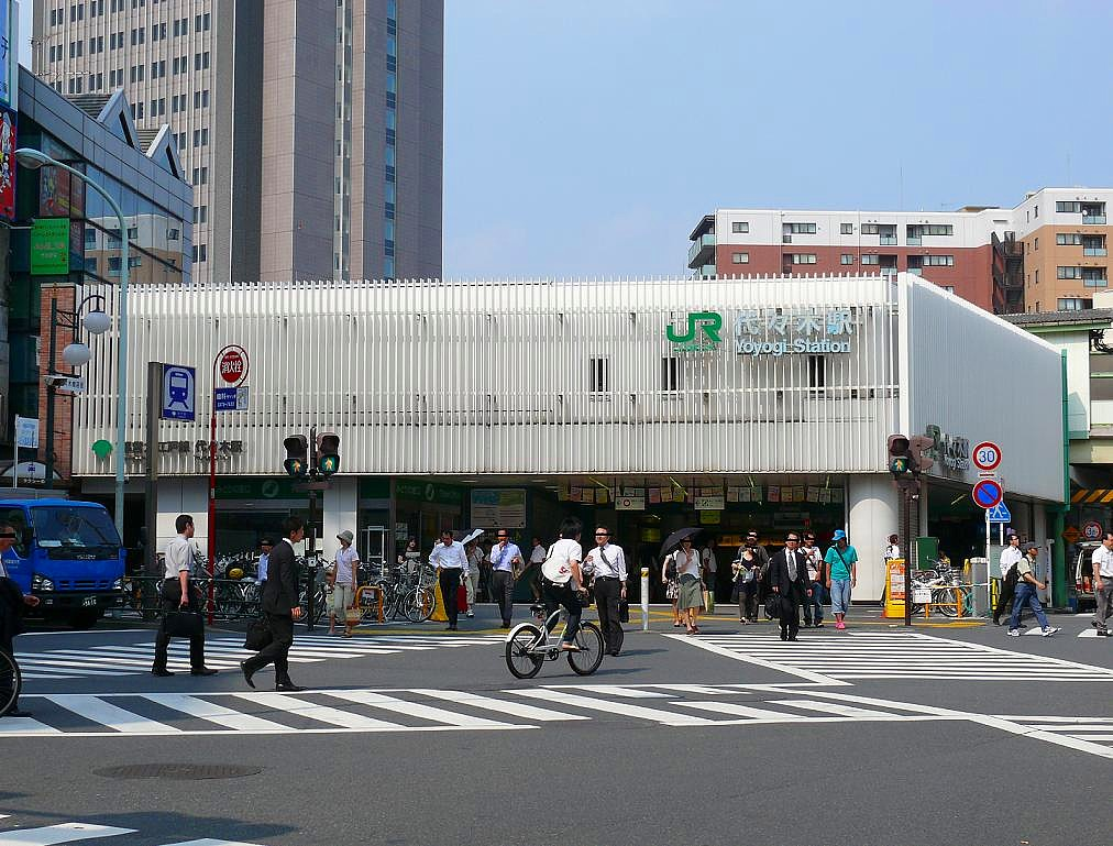 East Japan Railway Yoyogi-Station-West-exit(Japan,Tokyo).